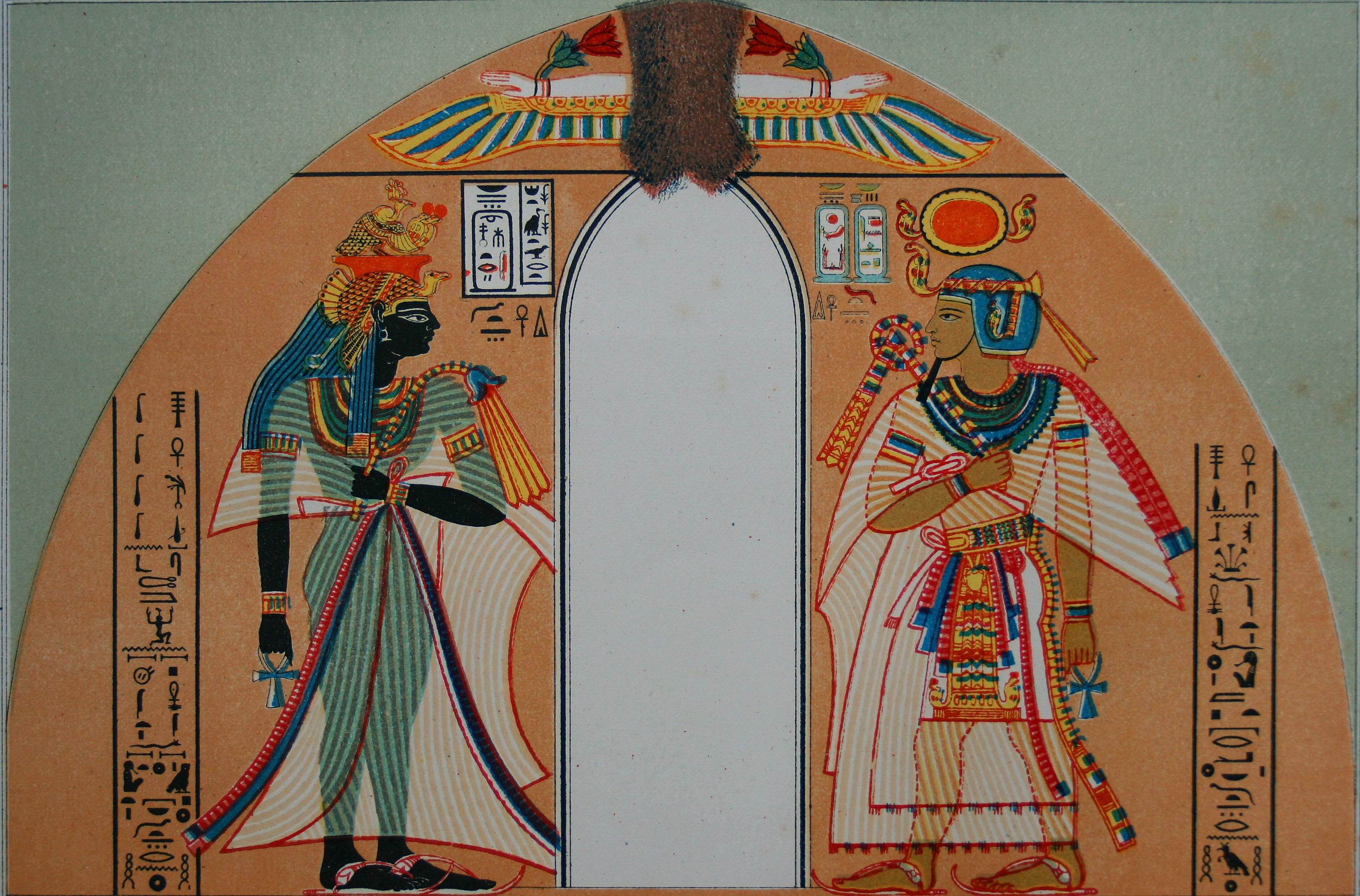 Pharaoh Amenhotep I with his mother Queen Ahmose-Nefertari. (18th dynasty of Egypt) Scan from old book Culturgeschichte by K. Faulmann (1881).